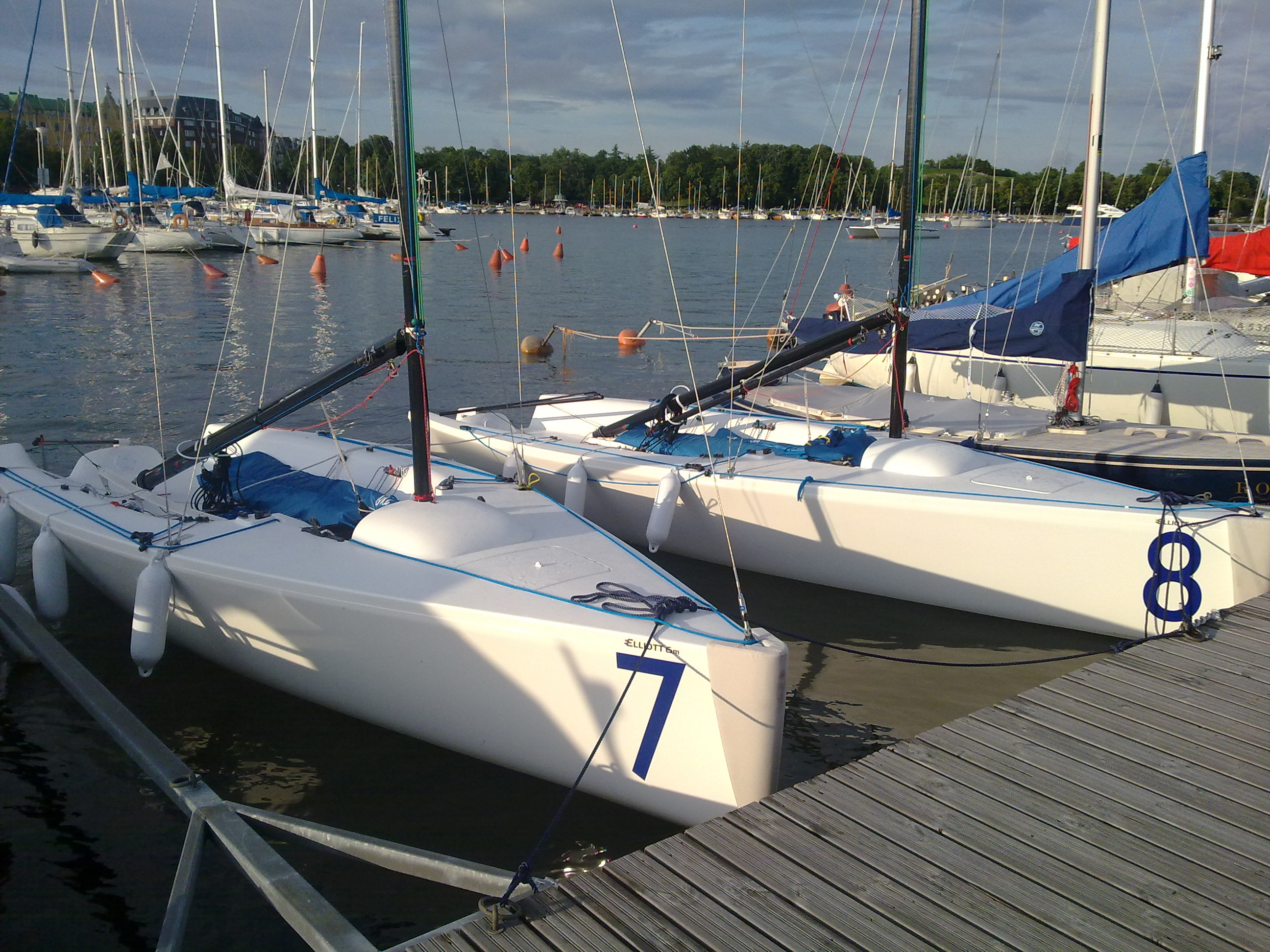 Elliott 6m sailboats